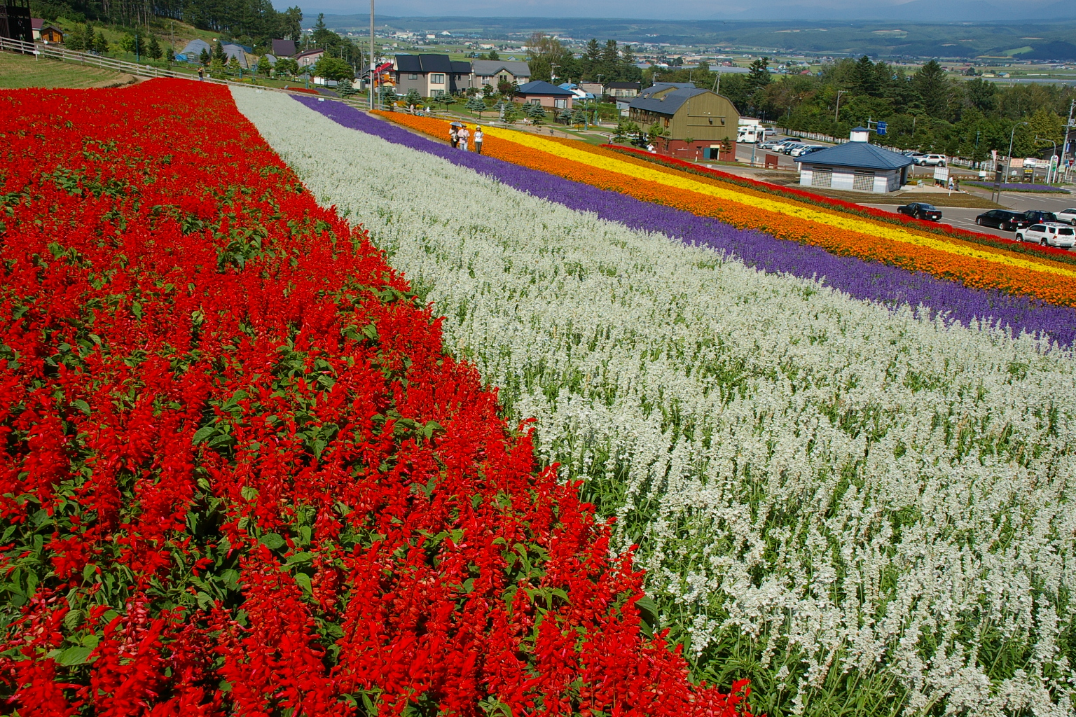 Nakafurano town ownership lavender garden in Nakafurano town hokkaido.